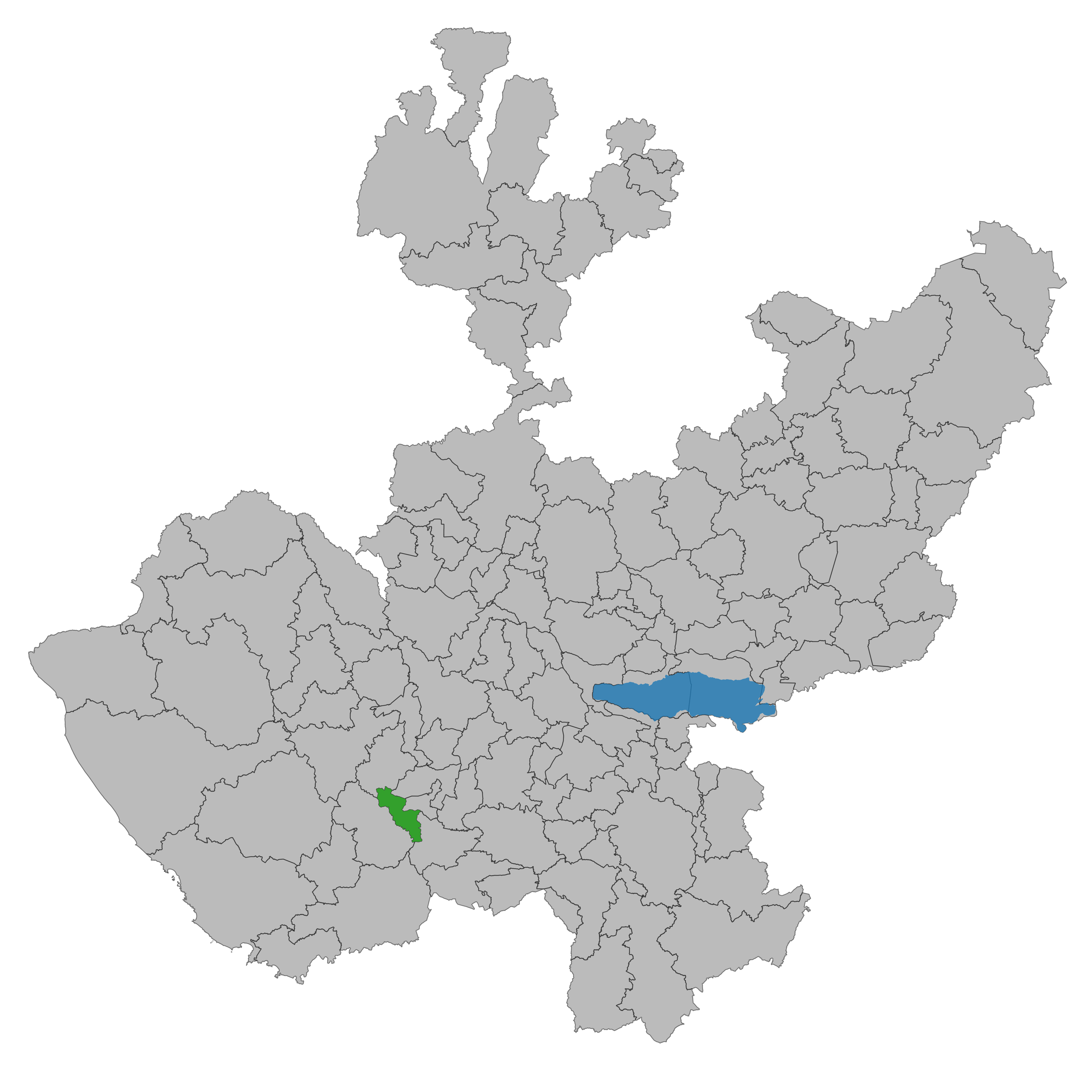 Municipality of Jalisco. Prepared with the software QGIS version 2.8.2 Wien & with information of SCINCE 2010 version 05/2013